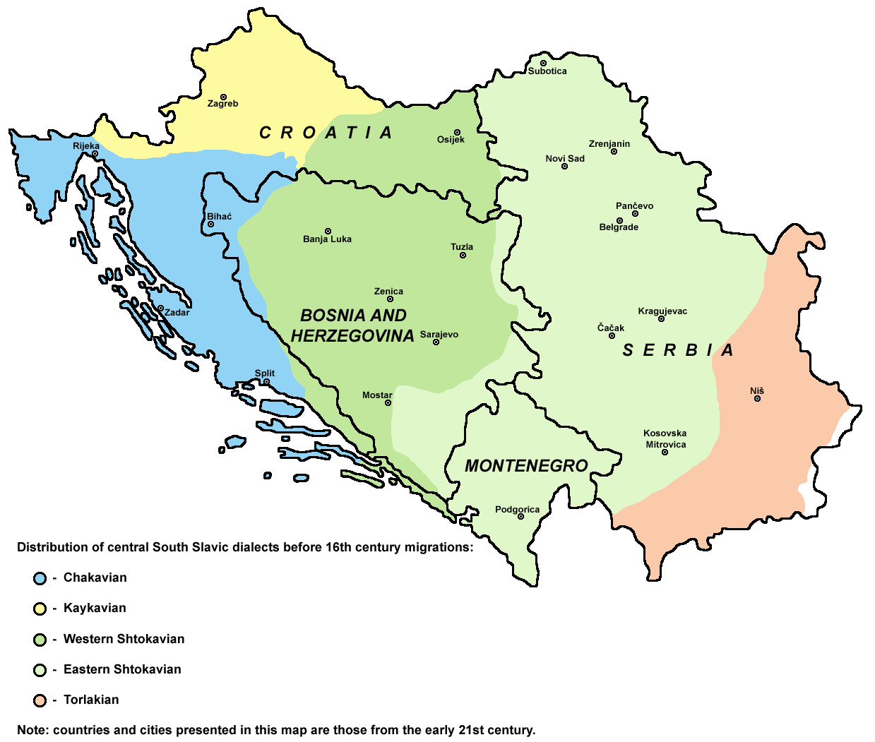 Distribution of central South Slavic dialects before 16th century migrations.Srpskohrvatski / српскохрватски: Raspored srednjojužnoslovenskih dijalekata pre migracija iz 16. veka.